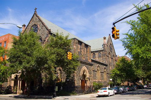 View of St. Paul's Church, Carroll Gardens, from the corner of Clinton and Carroll Streets.